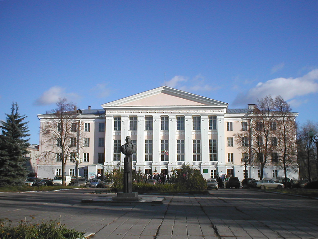 Lenin hall and square in Sotsgorod locality in Kazan